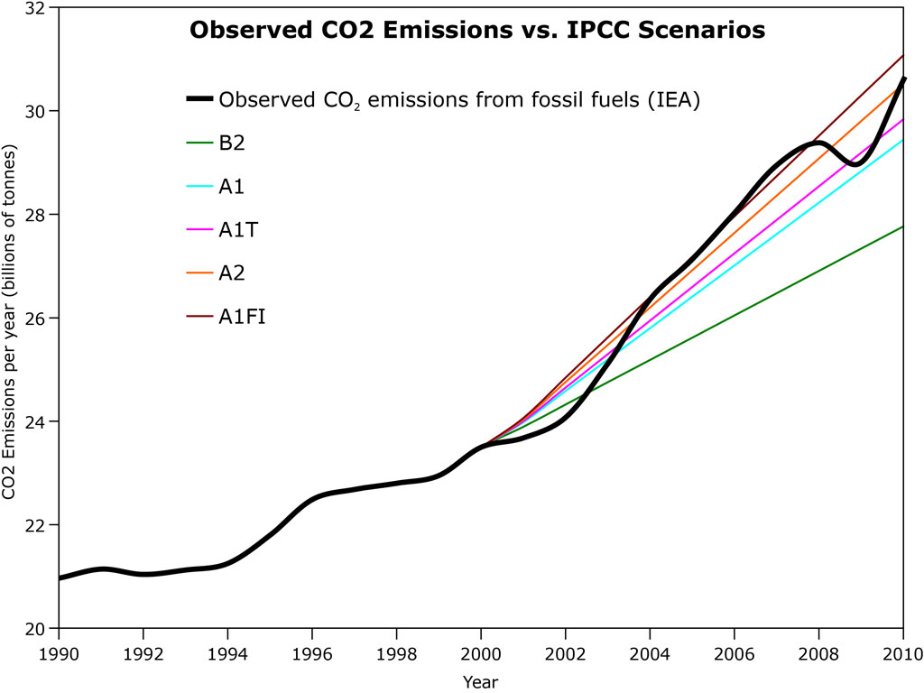 Осмотрене и предвиђене концентрације СО2